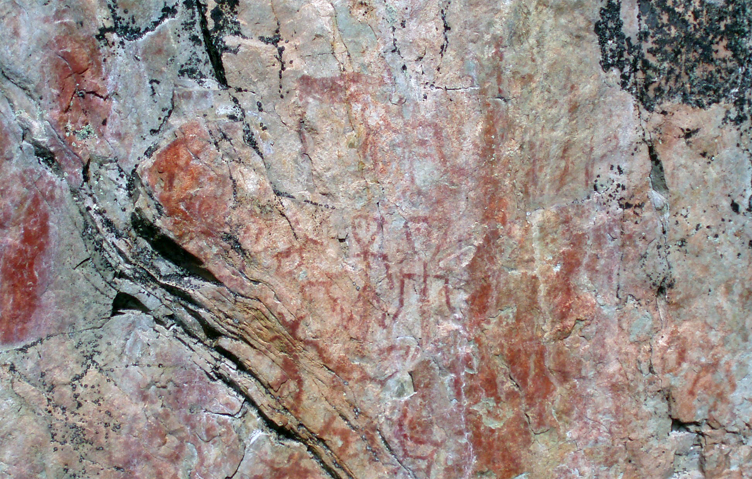 A small part of a prehistoric rock painting of Värikallio in Hossa, Suomussalmi, Finland